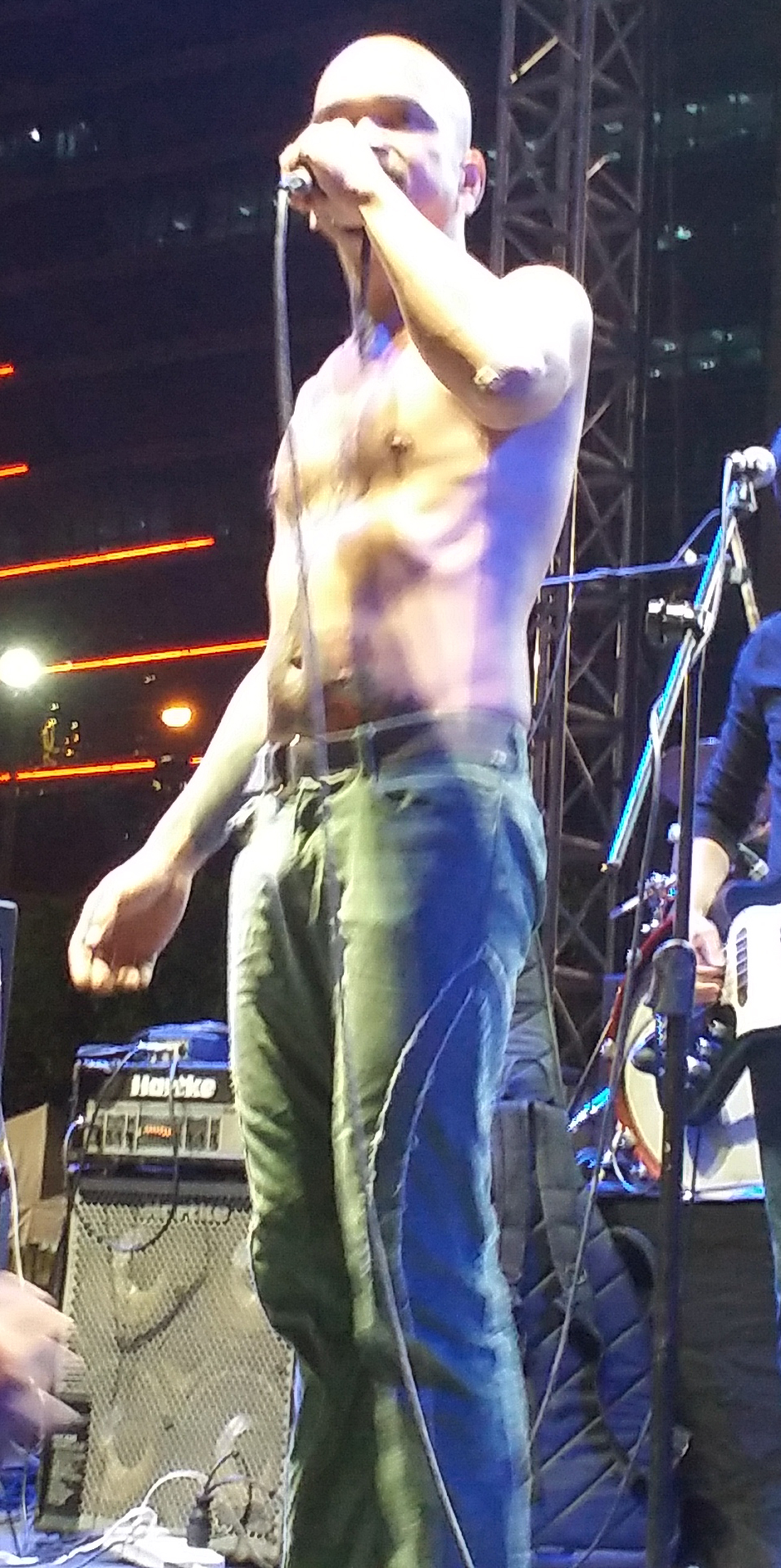 This Image is taken from Rakrakan Festival 2017 by Melgazar Galvan @user:Zzardielive16